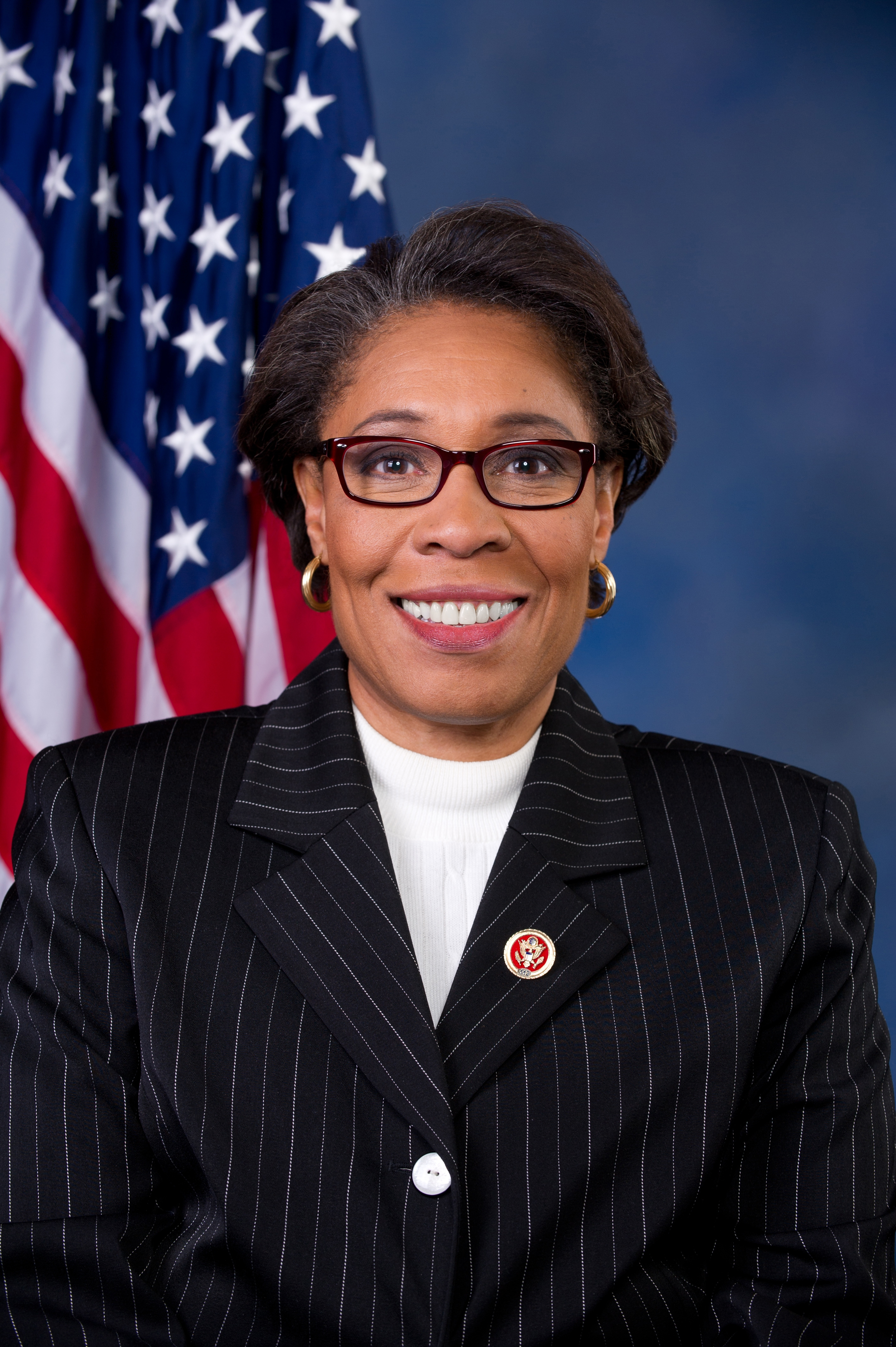 Marcia Fudge, member of the United States Congress.